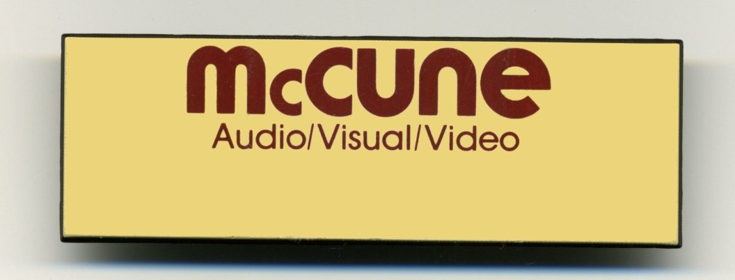 This is a blank namebadge from the late 1980s, ready for engraving an employee's name. The company is McCune Audio/Visual/Video.